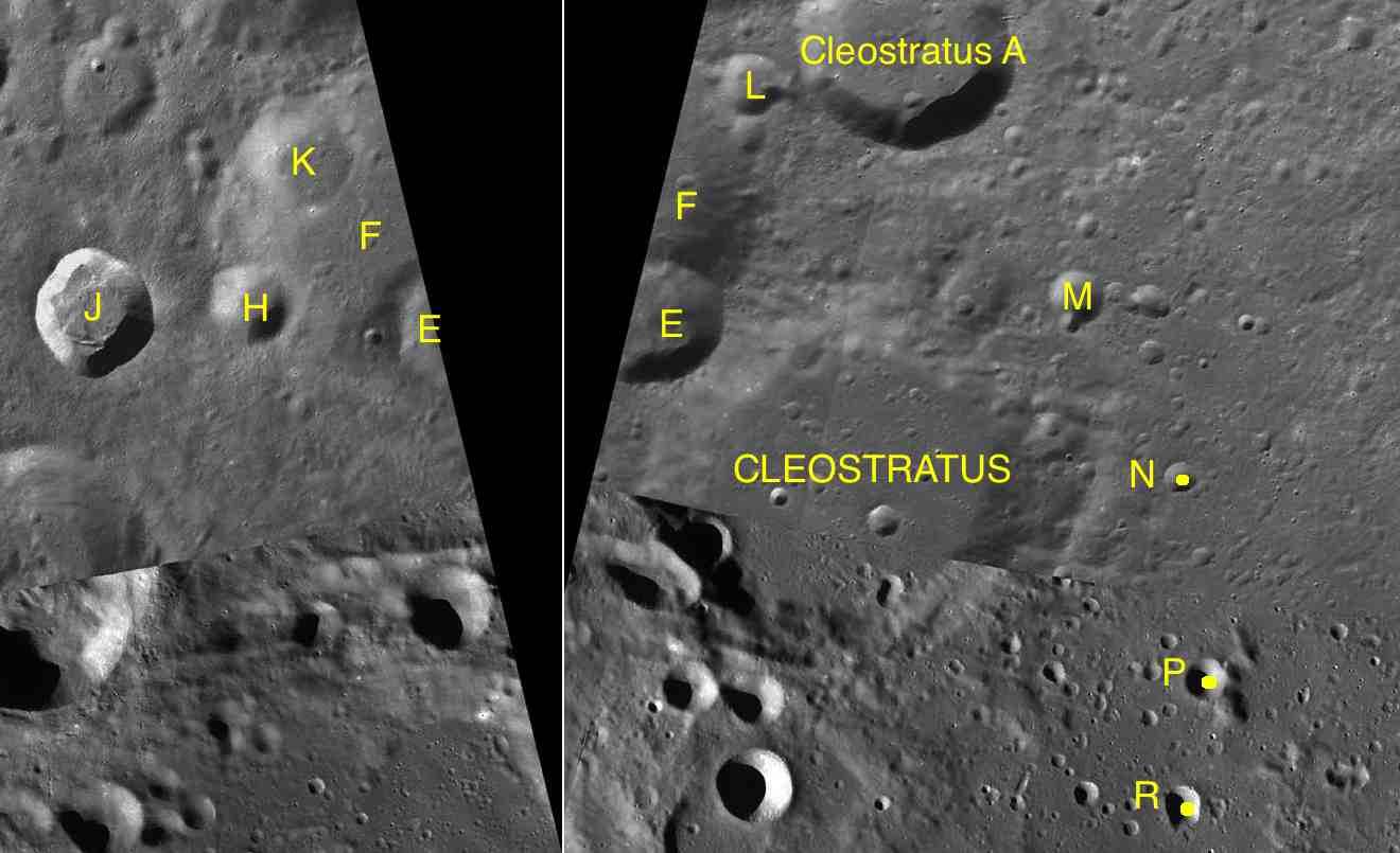 Parts of the charts LAC-10, LAC-21 used for the presentation